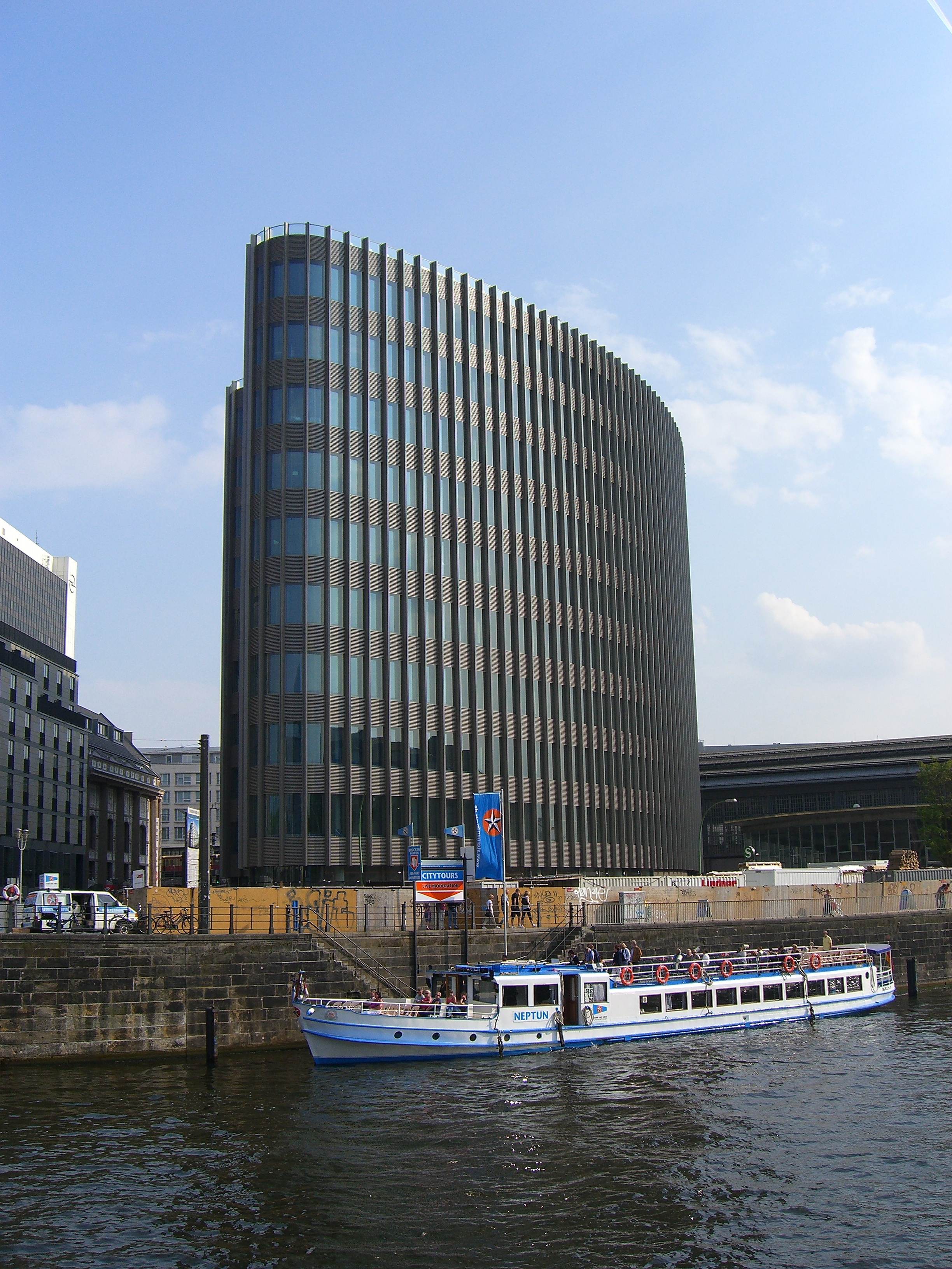 "Spreedreieck-Tower" at Friedrichstrasse in Berlin.